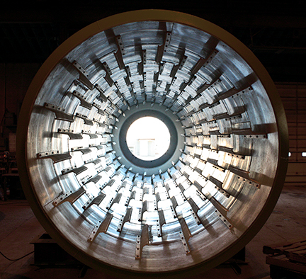 This image shows "flights" affixed to the interior of a rotary dryer engineered and manufactured by FEECO International: Green Bay, WI.